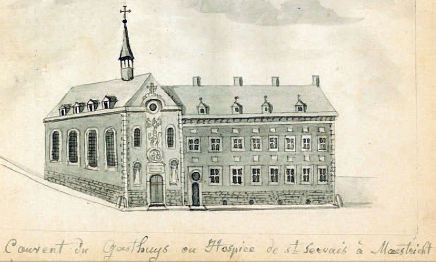 View of Saint Servatius Hospital, Maastricht, the Netherlands. Drawing by Philippe van Gulpen, c. 1840.